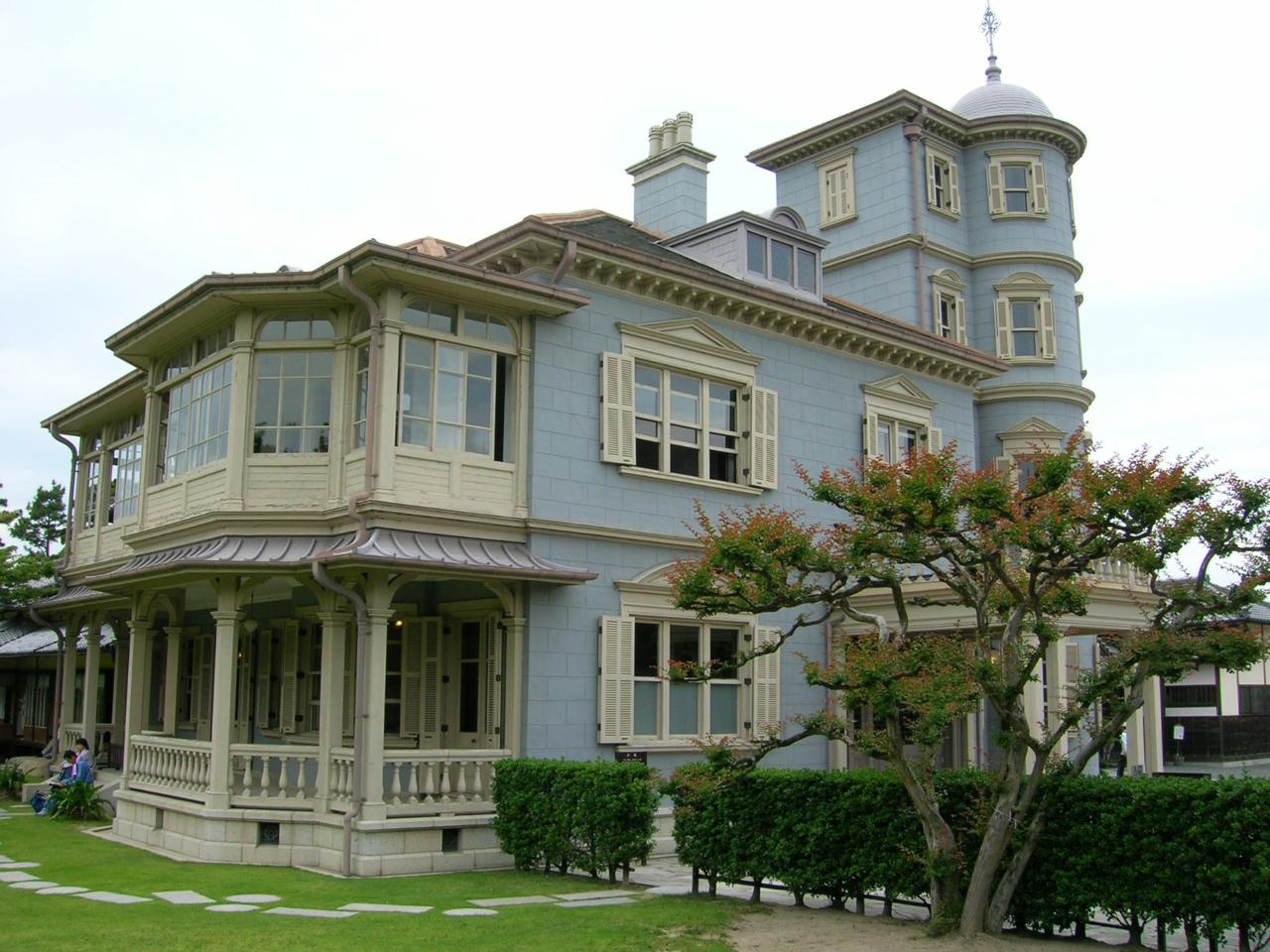 Rokka-en Yo-kan (Important Cultural Property: Seiroku Moroto II's Residence - Western House) Loc: Kuwana city, Mie Prefecture, Japan. ja: 六華苑 (旧・二代目諸戸清六邸)、洋館 撮影場所 三重県桑名市